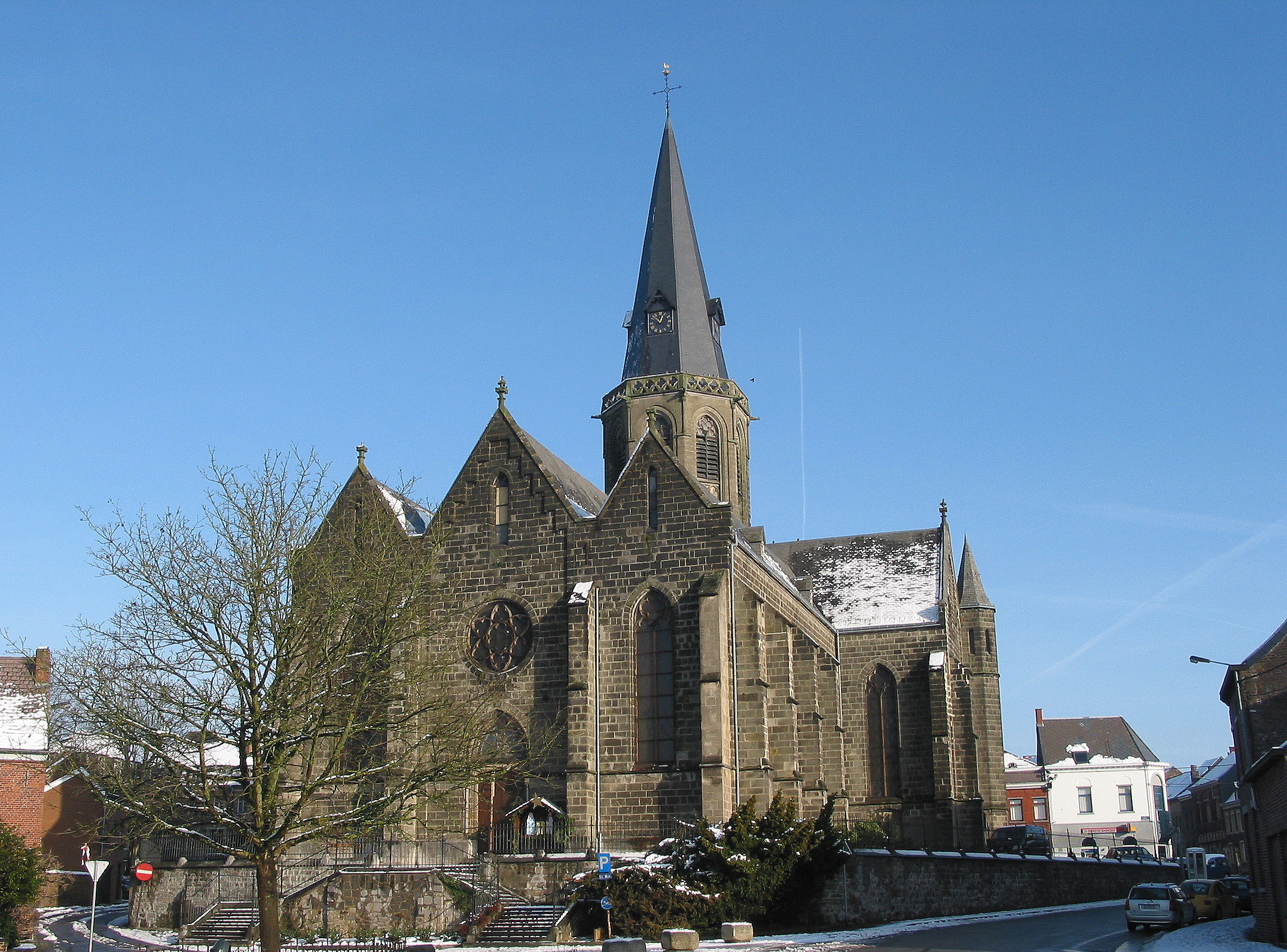 Le Roeulx (Belgium), the St. Nicolas church (1869).